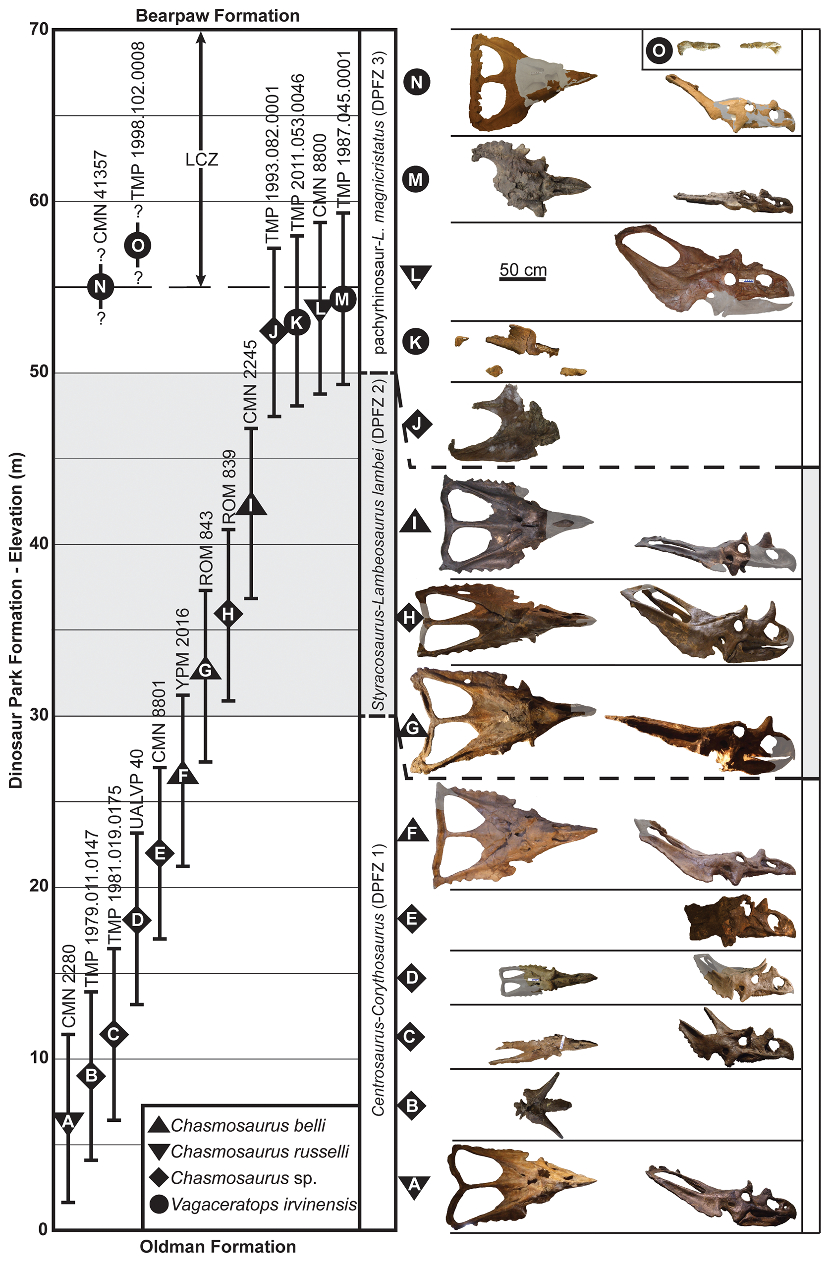 Stratigraphic positions of chasmosaurine specimens from the Dinosaur Park Formation. Specimens above the regional disconformity (0 m) separating the Dinosaur Park and Oldman formations (error bars ±5 m). Specimens are shown on right in ascending stratigraphic order, in dorsal and lateral views. CMN 41357 was collected either at the base of or within the Lethbridge Coal Zone (LCZ), and TMP 1998.102.0008 was collected somewhere within the LCZ, as indicated by the vertical dashed lines. DPFZ = Dinosaur Park Faunal Zone ([15, 16]). Plaster reconstruction = grey. [planned for page width].